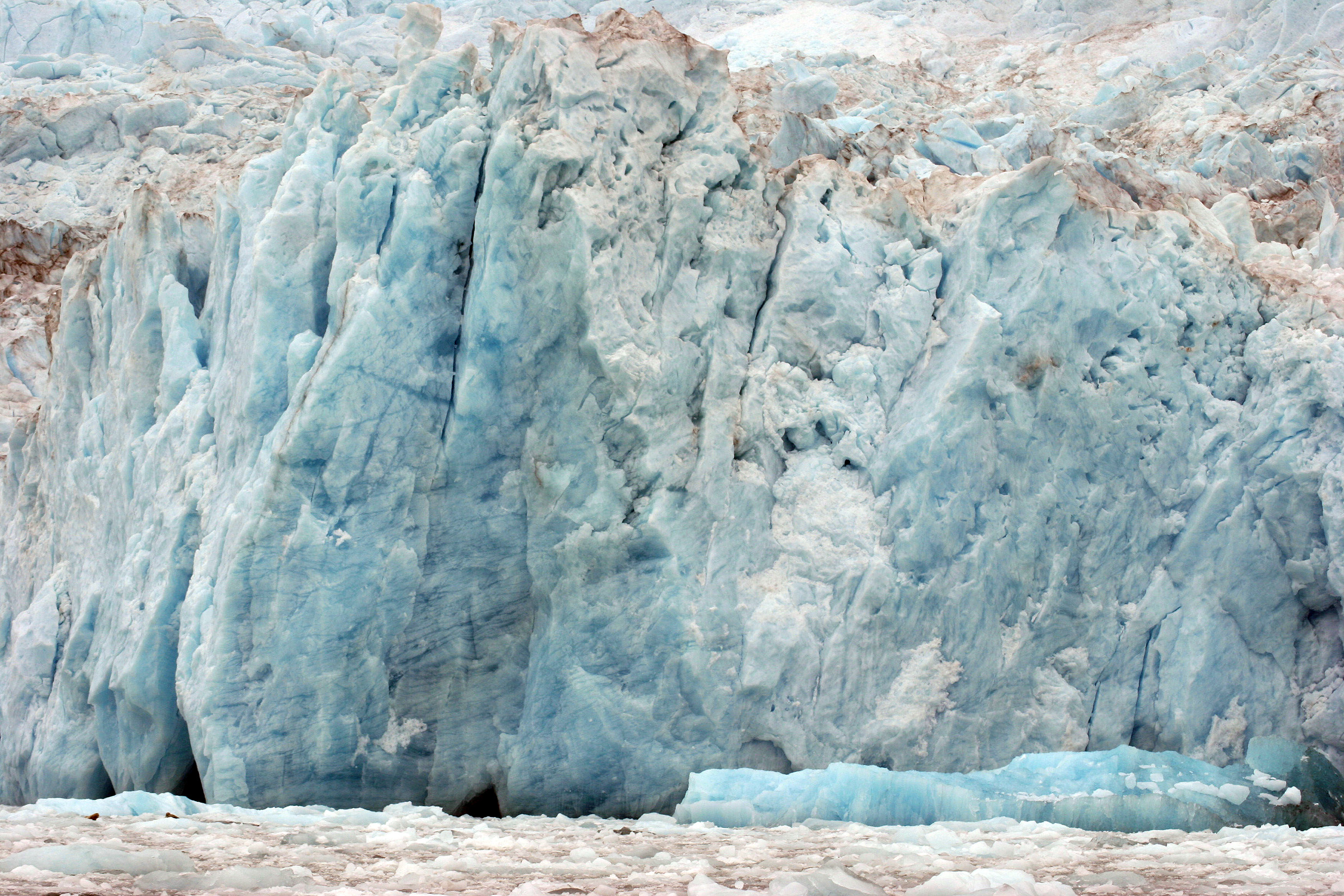 Chenega Glacier, an active glacier in Prince William Sound, Alaska Transferred from en.wikipedia (Original text : Original uploader was Mattisse at en.wikipedia